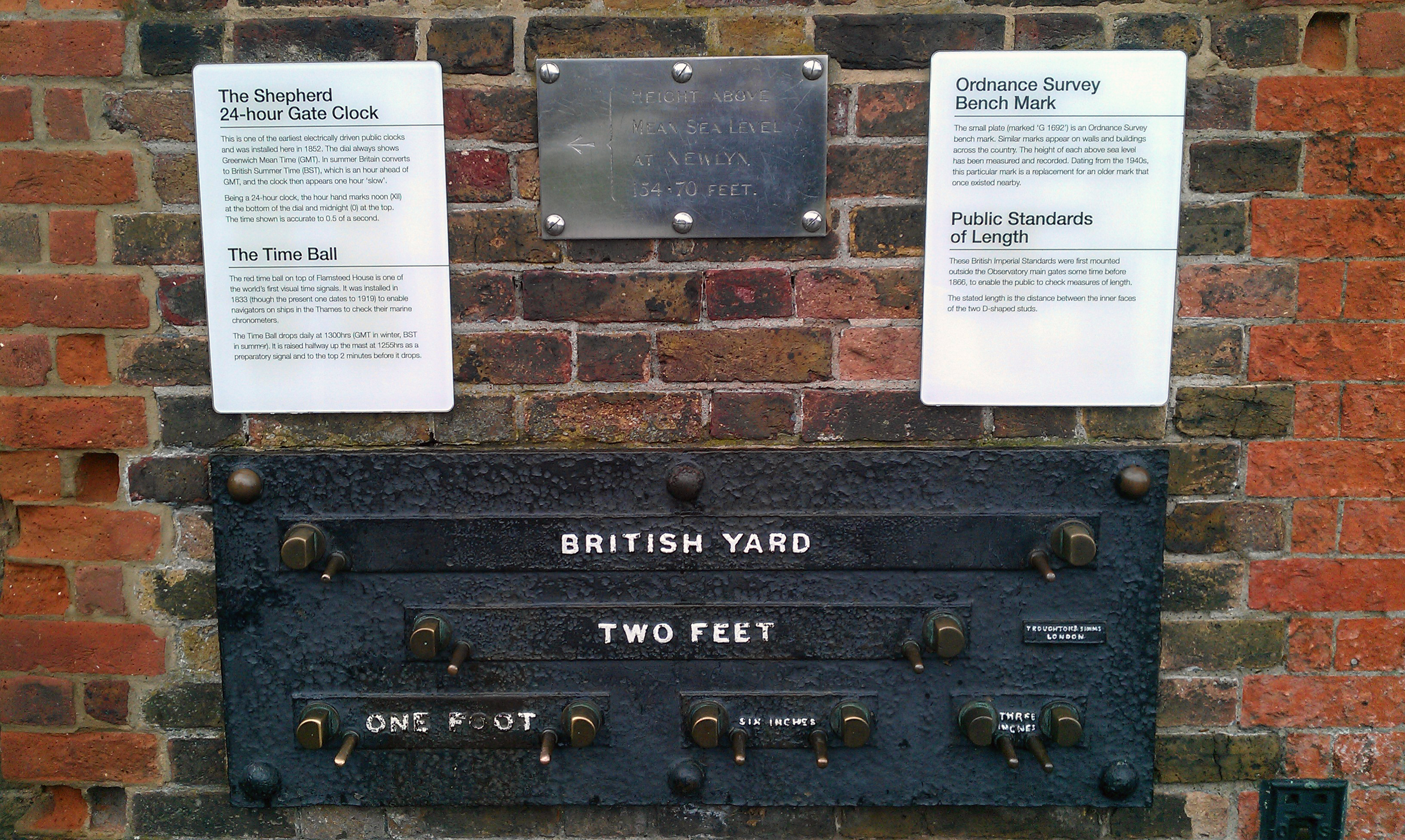 Public Standards Of Length